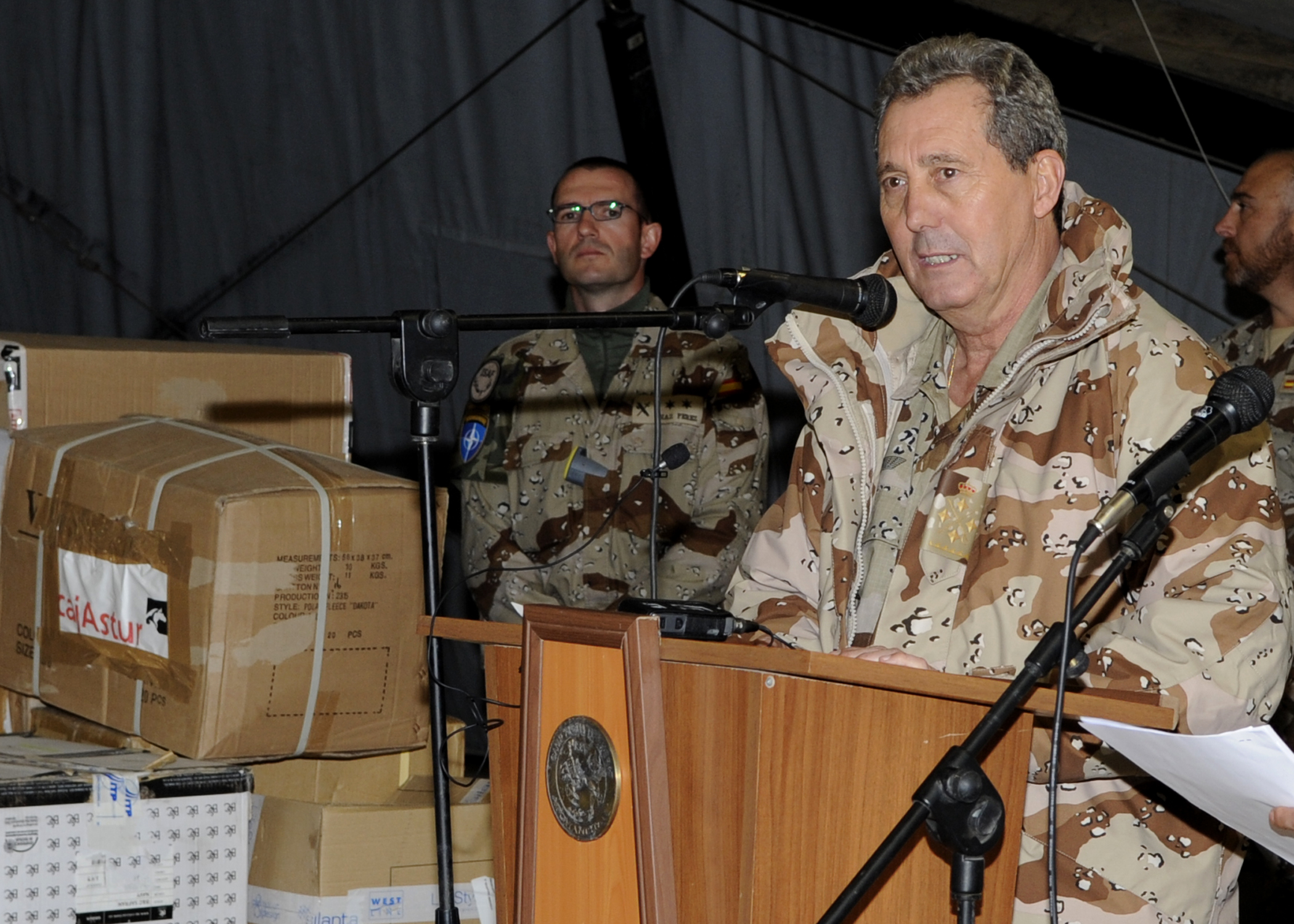 HERAT, Afghanistan--General Jose Jimenez Ruiz, Spanish Air Force Chief of Staff, delivers a message to Herat Province community leaders during a ceremony for the delivery of donated supplies at Camp Arena, Dec. 14. The general visited the camp to meet with the Spanish forces and to deliver more than 50 tons of supplies donated by Spain's Air Force to the Herat region in western Afghanistan. (ISAF photo by U.S. Air Force TSgt Laura K. Smith)(released)